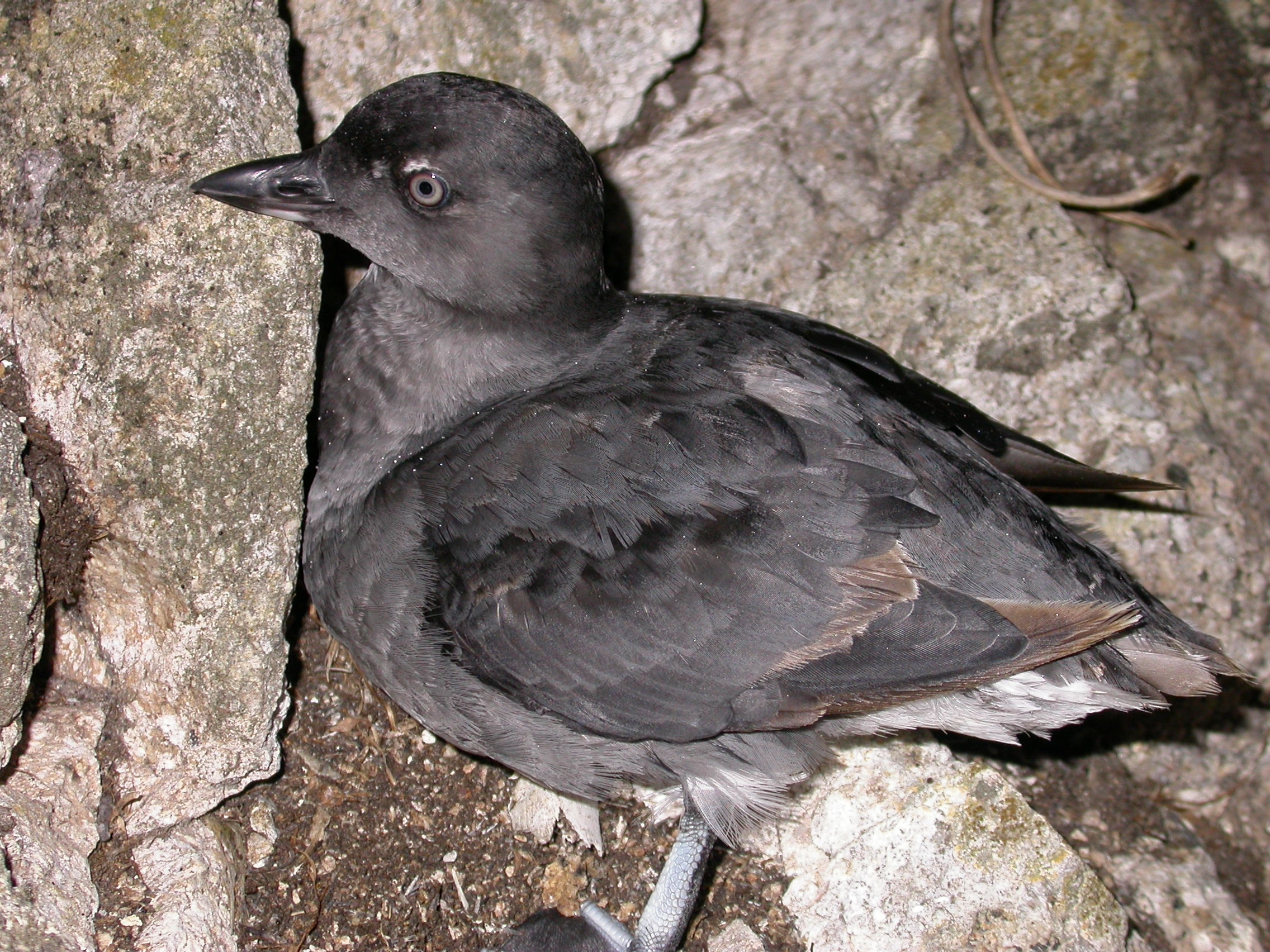 Cassin's auklet (Ptychoramphus aleuticus) at night. Photo taken in 2003 on Farallon Islands.